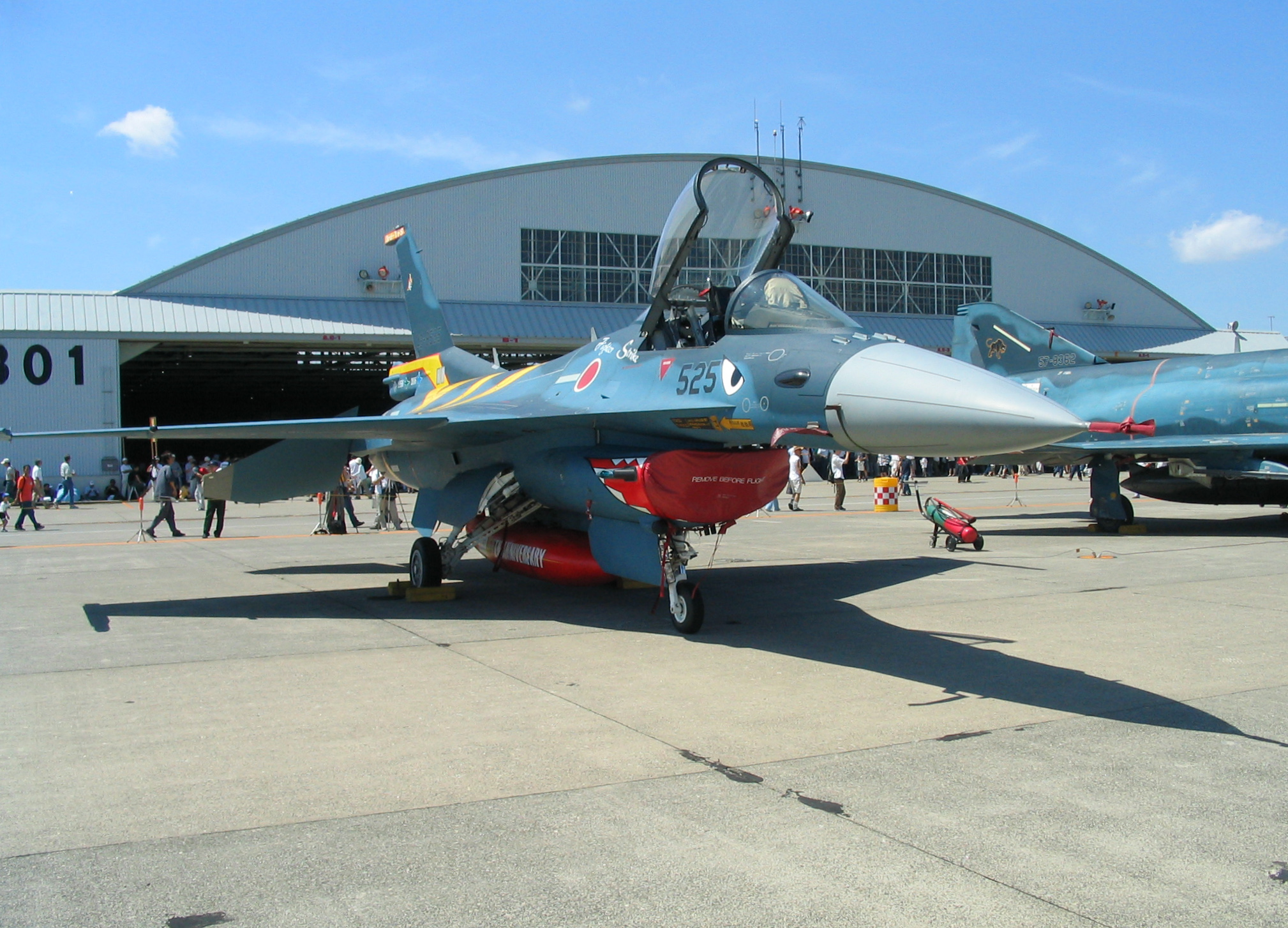 Japan Self-Defence Force, Mitsubishi F-2 Fighter at Chitose Base Airshow in 2006. Special painting for the 50th anniversary of 3rd Tactical Fighter Squadron.